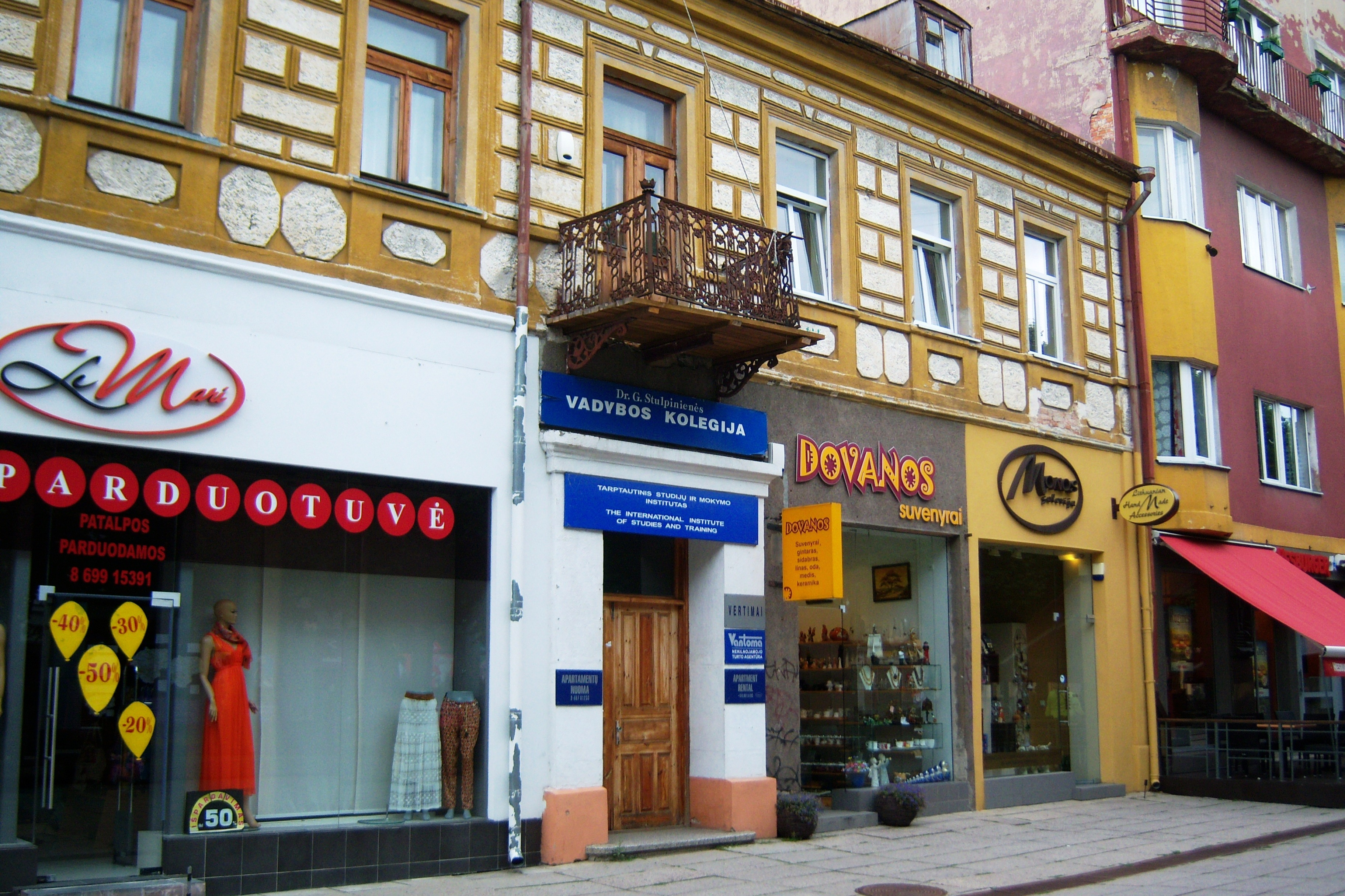 G. Stulpinienė College of Manamegent, Kaunas, Lithuania